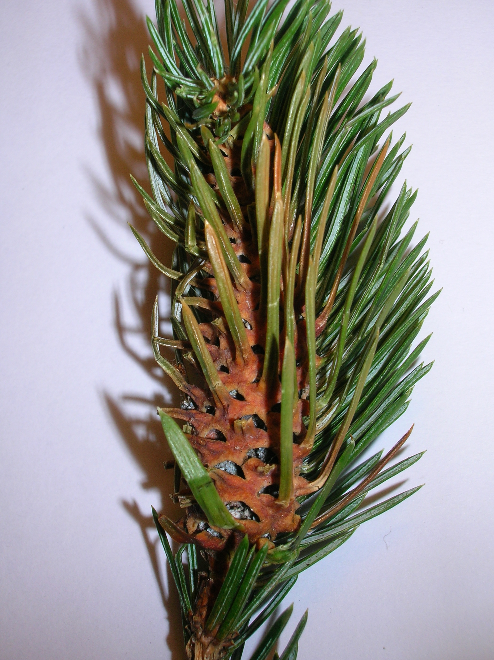 A Pineapple Gall on Sitka Spruce, Redhall, Edinburgh.